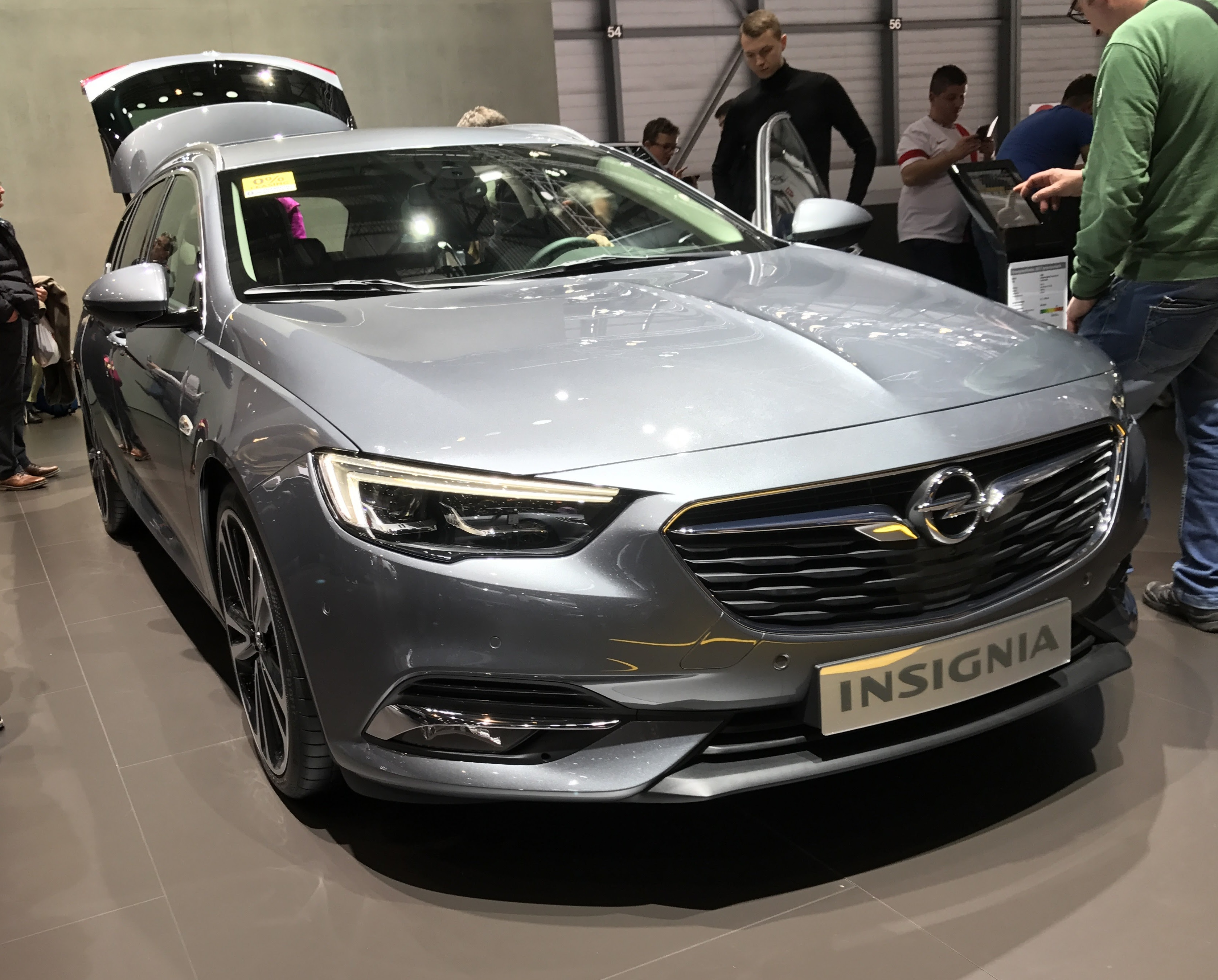 Opel Insignia at the 2017 Geneva Motor Show